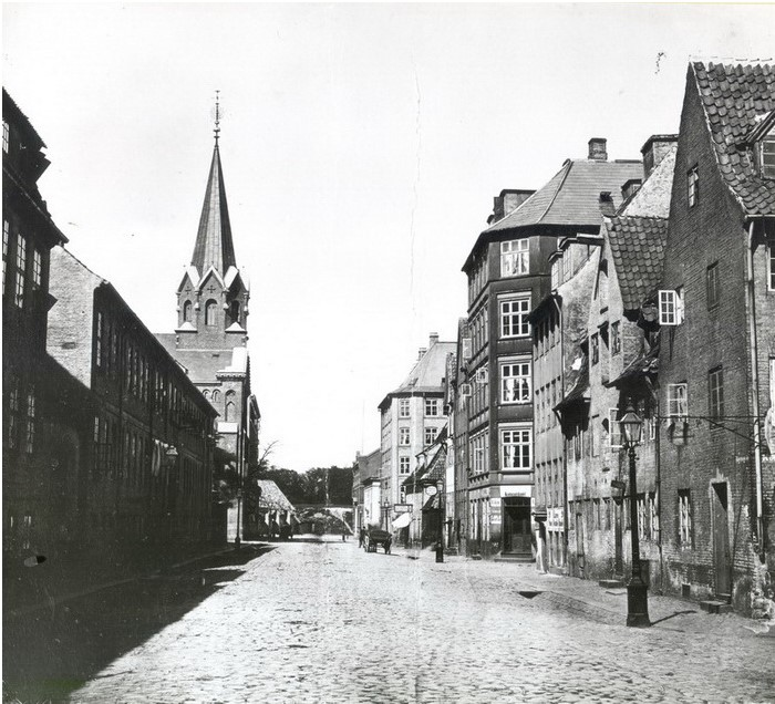 Rigensgade in Copenhagen, Denmark